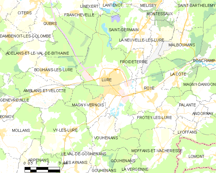 Map of French municipality